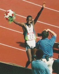 Private Photo of Wilson Kipketer in Cologne August 1997. World Record 800m.